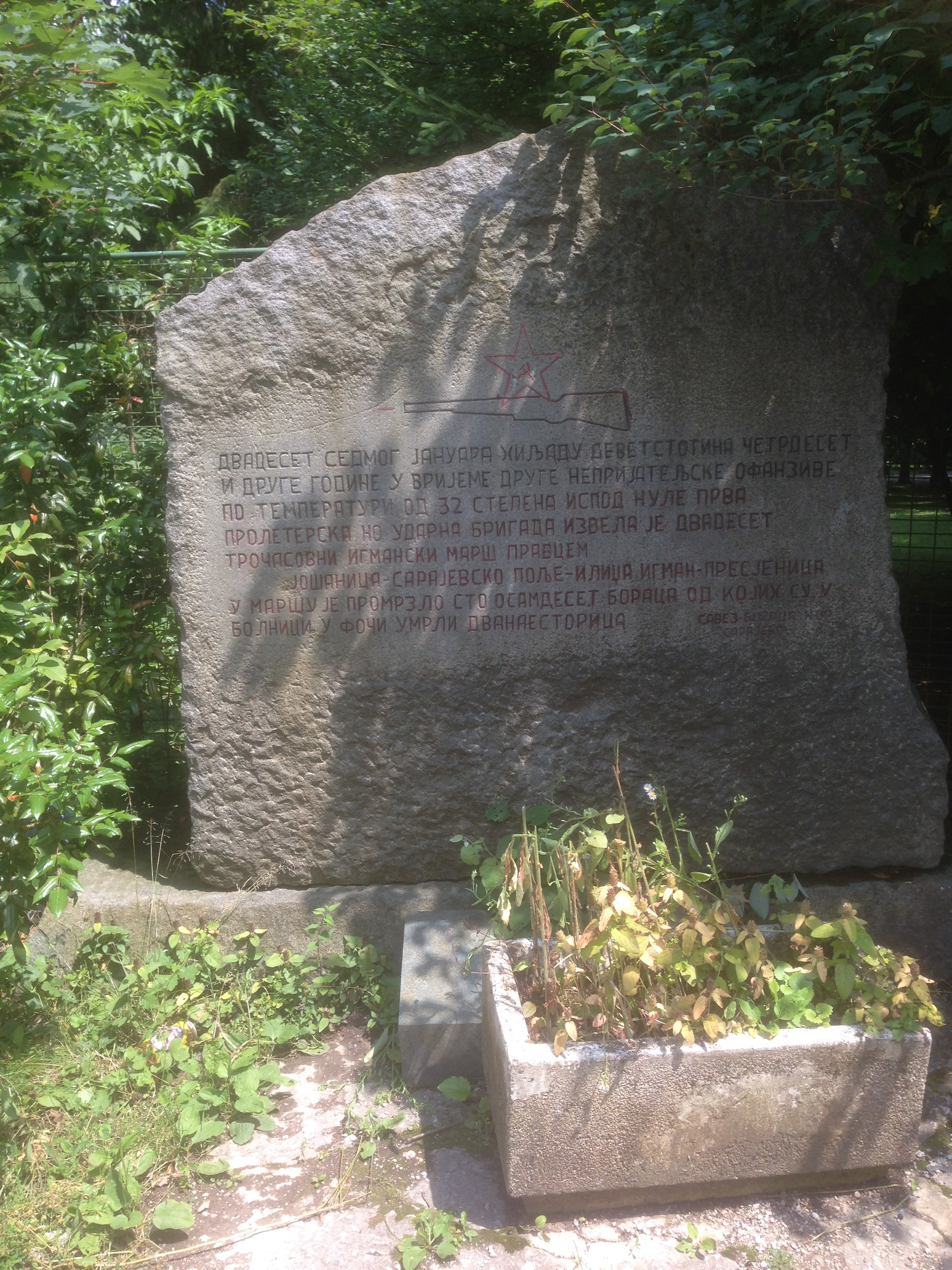 Monument Igmans march